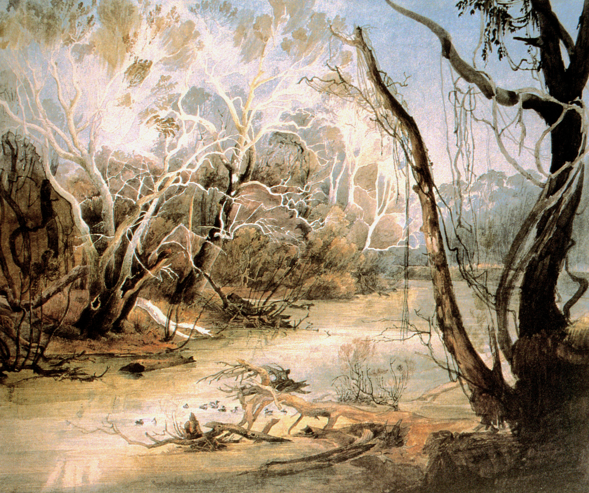 The Fox River near New Harmony in Indiana. Watercolor by Karl Bodmer 1832.